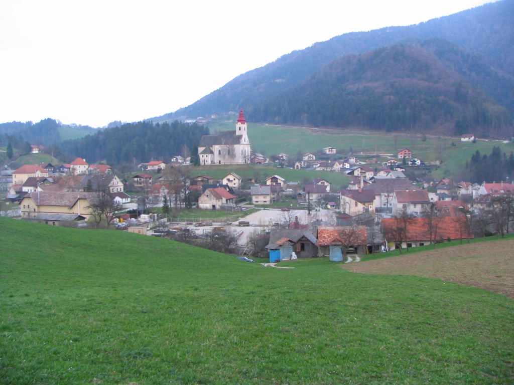 The town of Vitanje, Slovenia, a view from NW